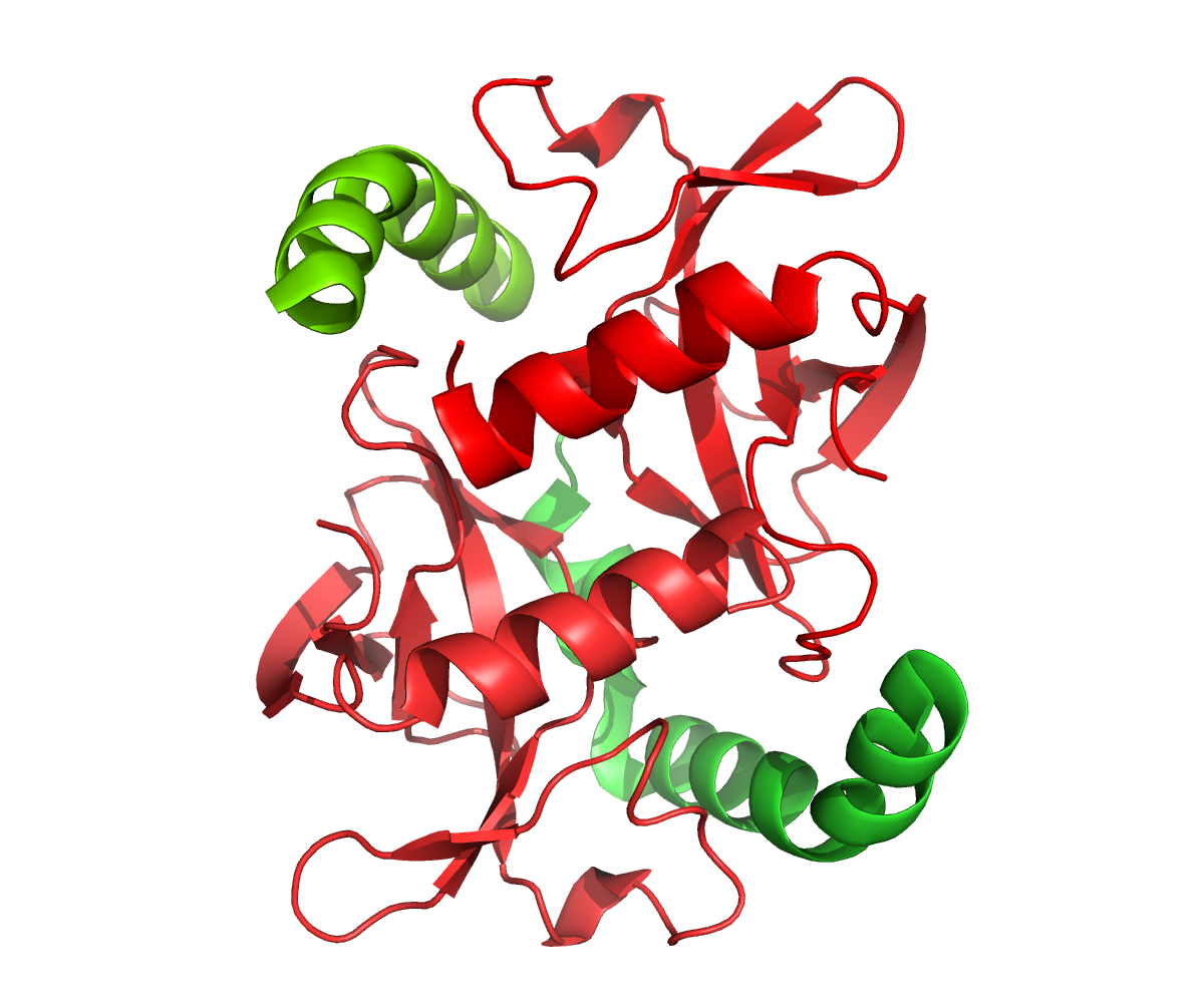 Two ccdB toxin molecules (in red) are pictured binding to two ccdA antitoxin C-terminal domains, forming a toxin-antitoxin complex. Structure rendered from 3G7Z using pymol.